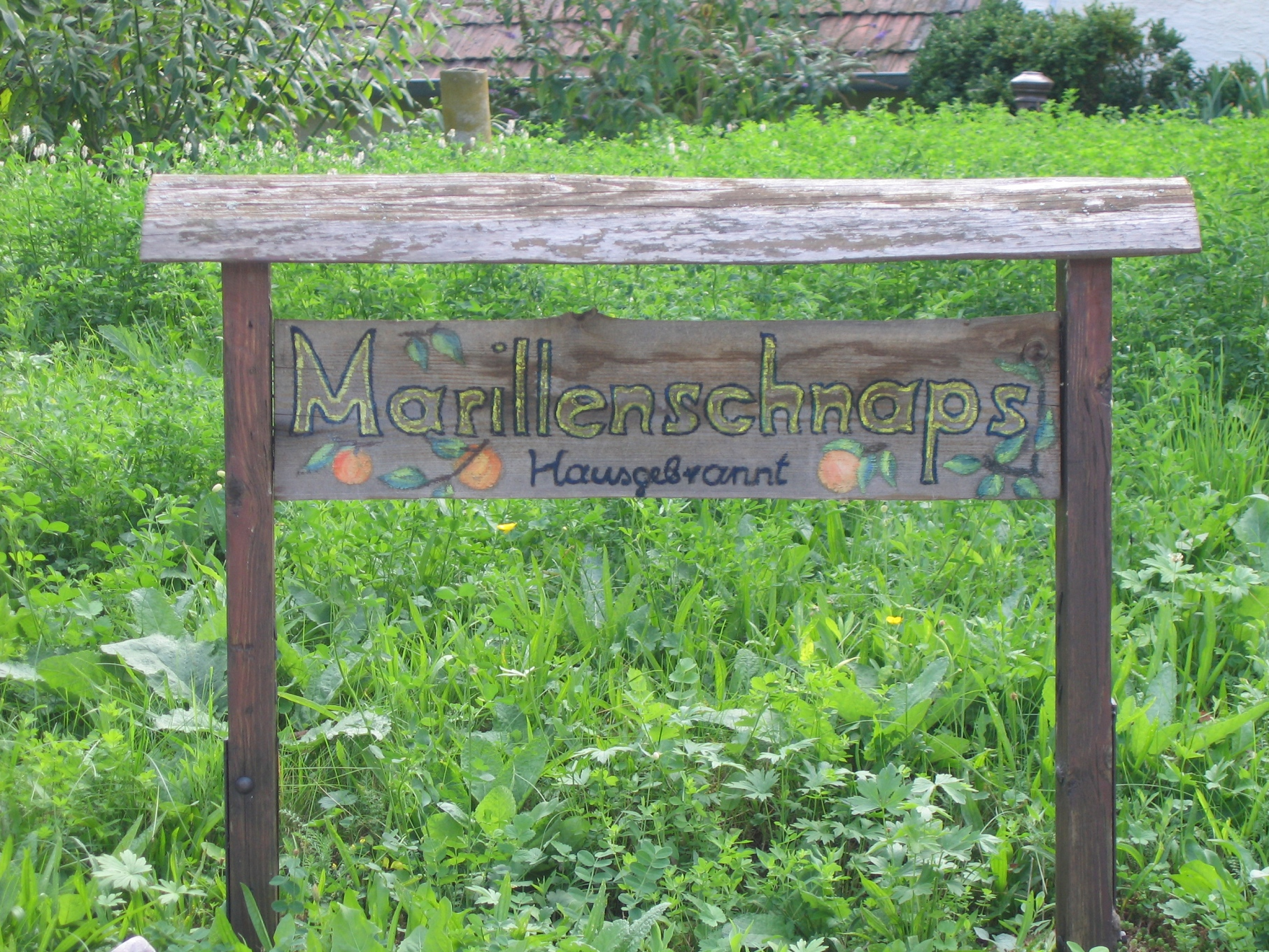 Rossatz, Wachau, Austria: Hand painted advertising plate for home made apricot brandy (Marillenschnaps)